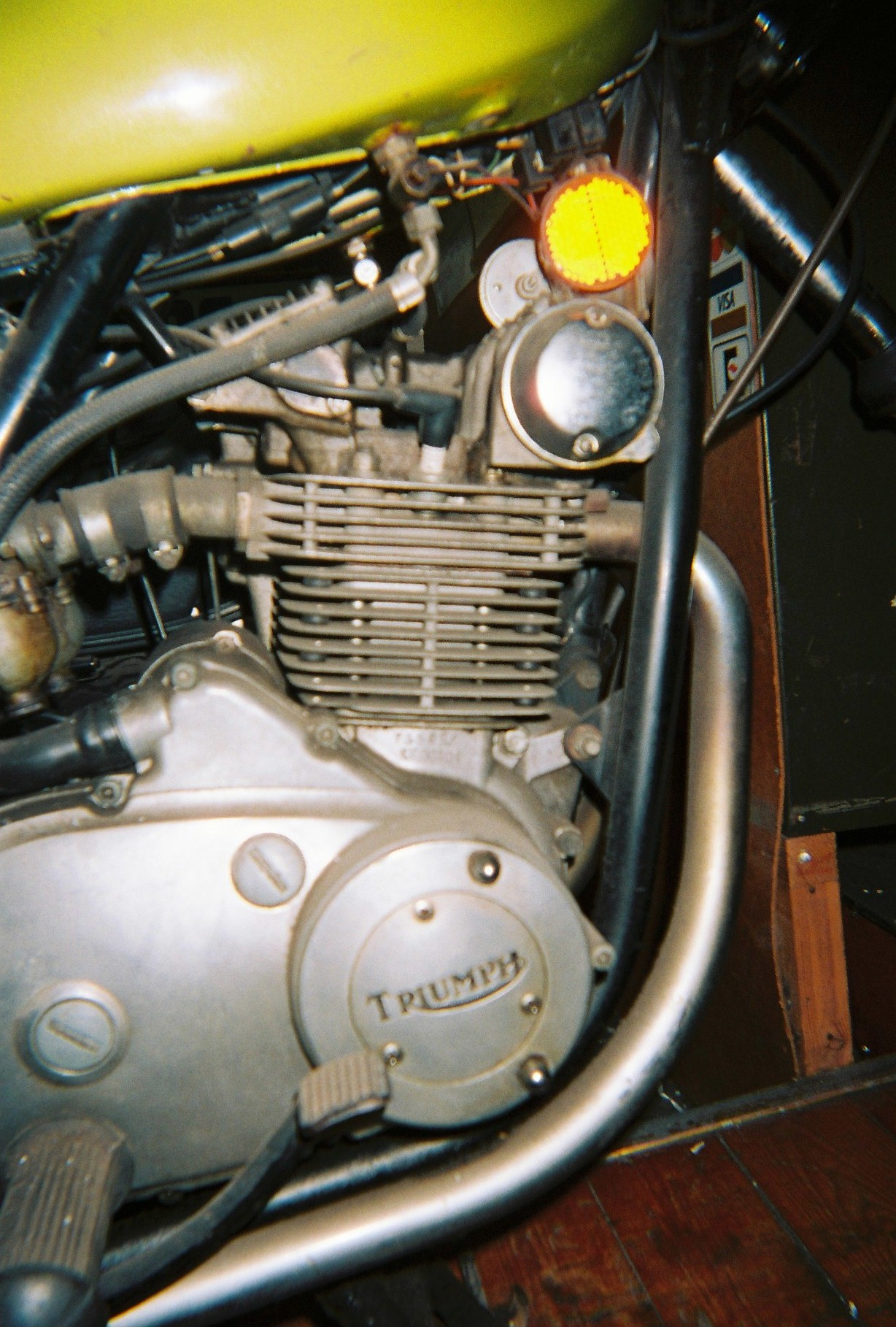 Designed by the legendary former Triumph designer Edward Turner but much modified by Bert Hopwood and Doug Hele, this electric starting, double overhead camshaft 350cc twin cyclinder engined motorcycle for the 1971 selling season was cancelled before mass production by the parent BSA Group company.